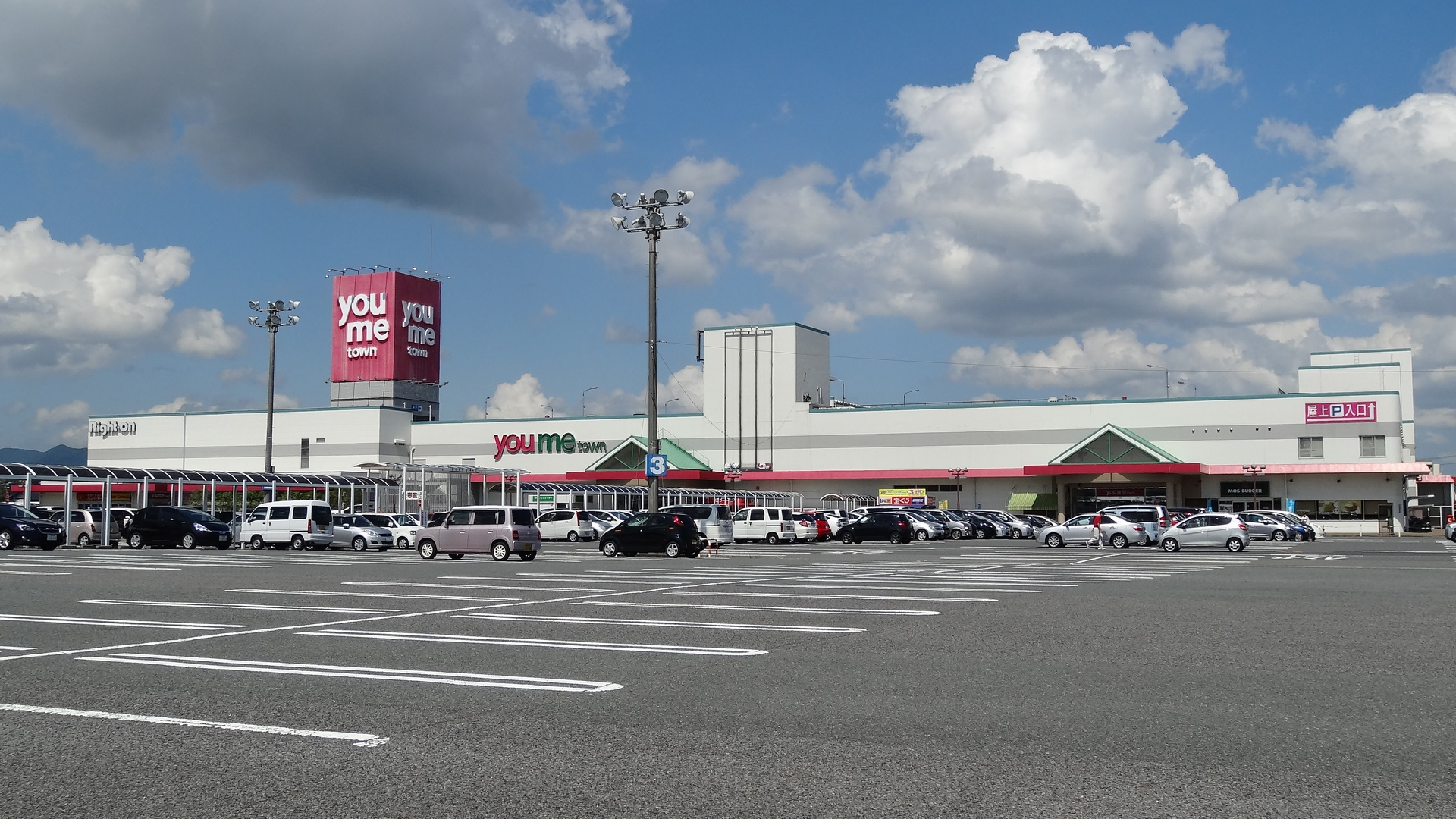 "you me town Chofu" is a shopping center in Shimonoseki City, Yamaguchi, Japan.